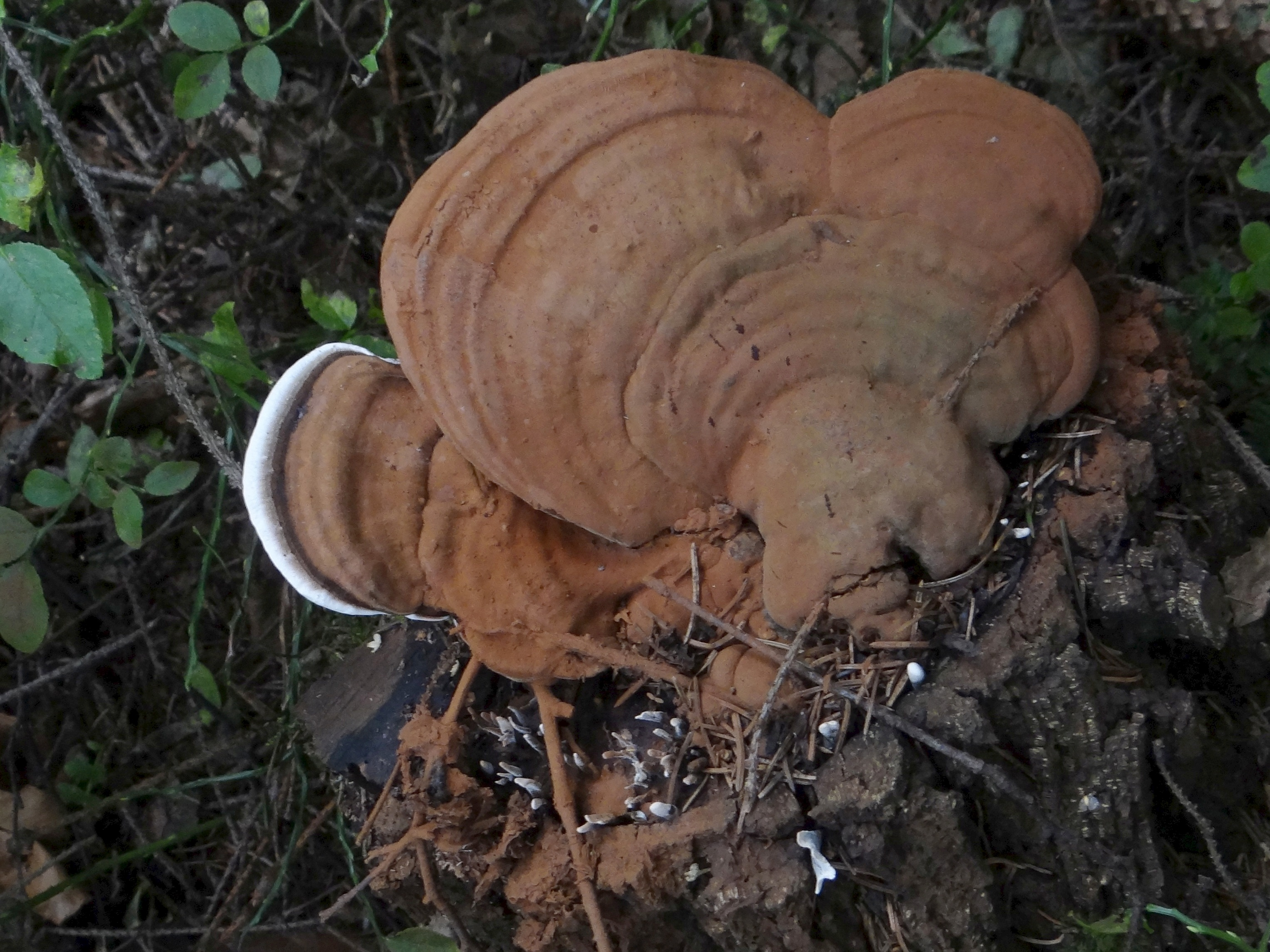 Ganoderma applanatum (location: Poland, Beskid Sądecki, Rytro)